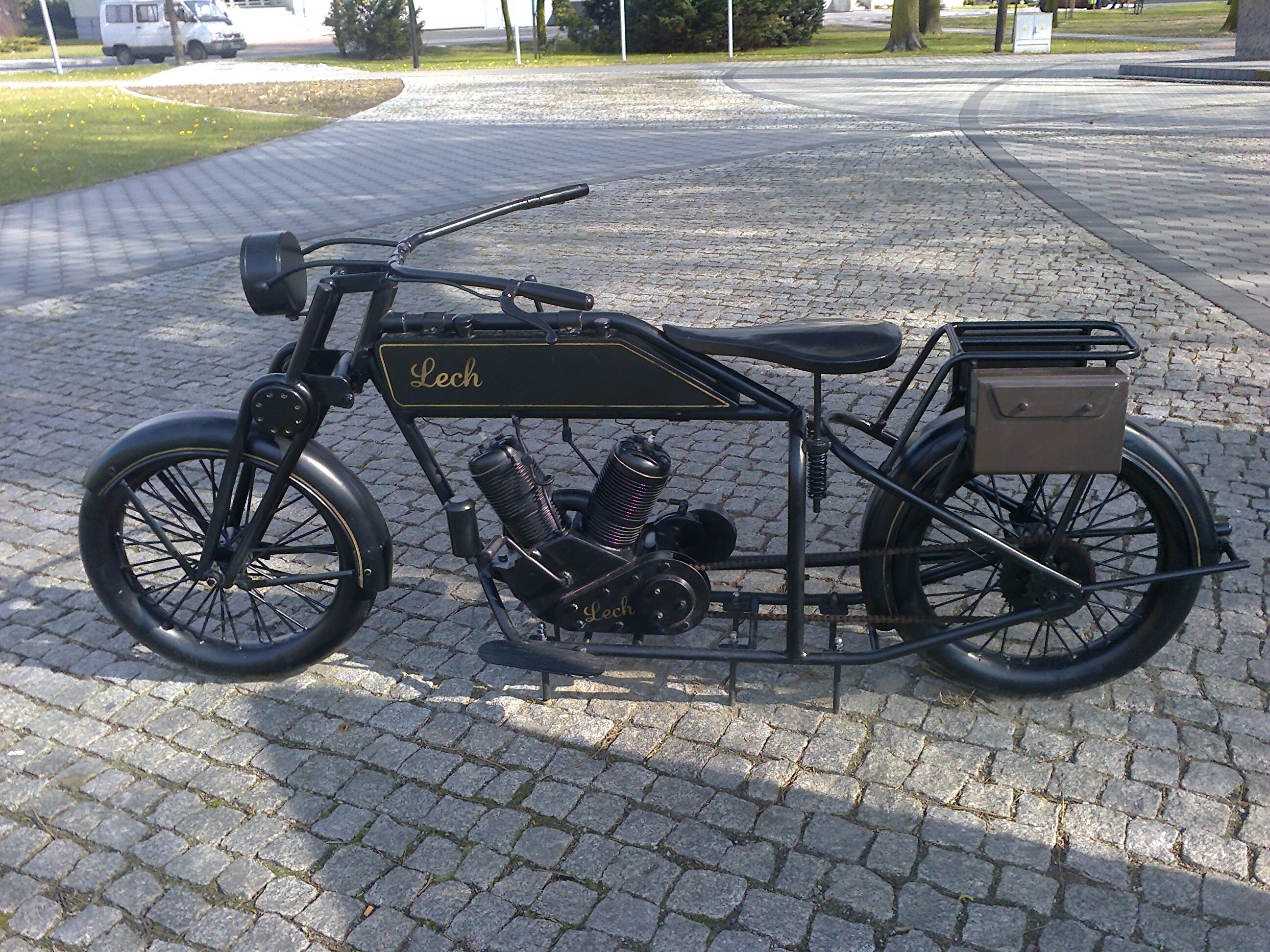 Old polish motorbike LECH in Opalenica, Poland (replica).